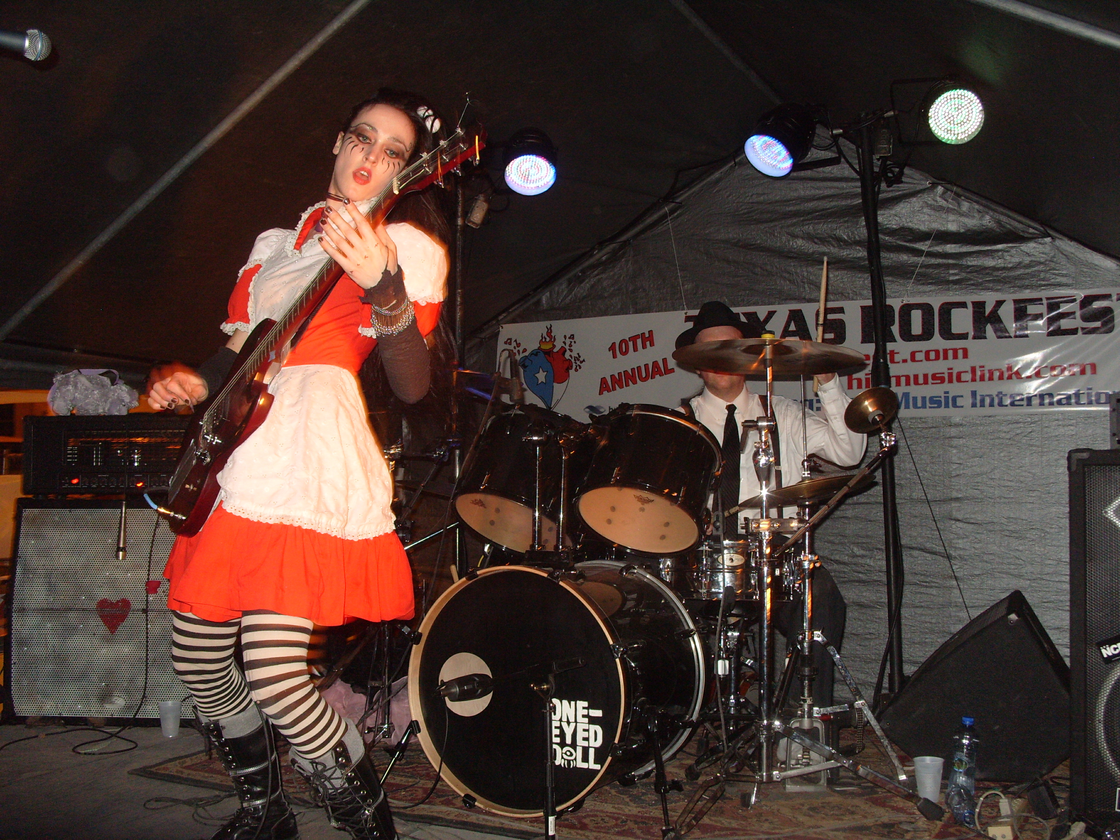 One-Eyed Doll at Rockfest Flickr Tags: One-Eyed Doll Rockfest Austin TX 2009 live music band bands Glam Metal Punk.